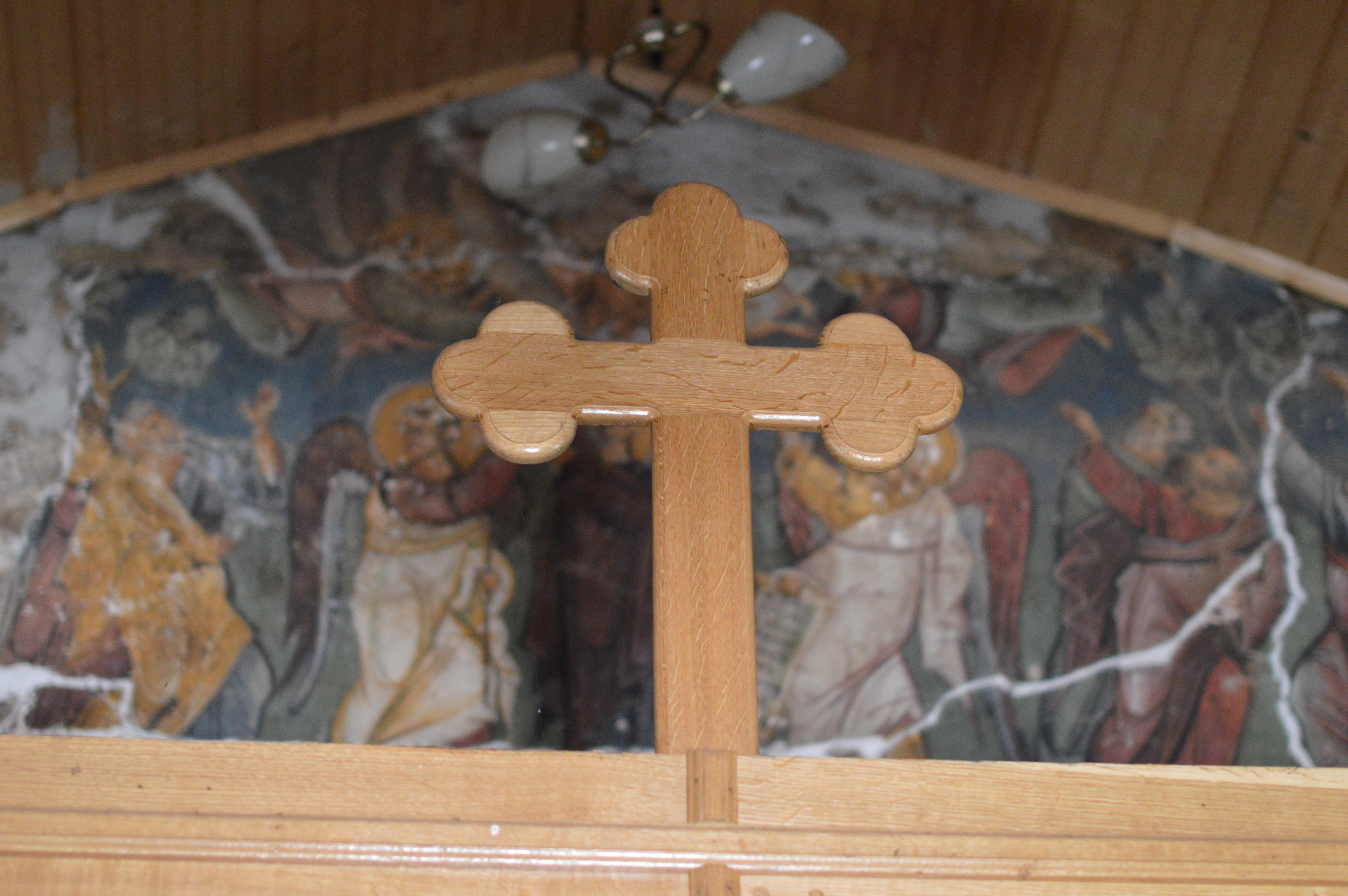 Слики од WikiCamp 2 ден